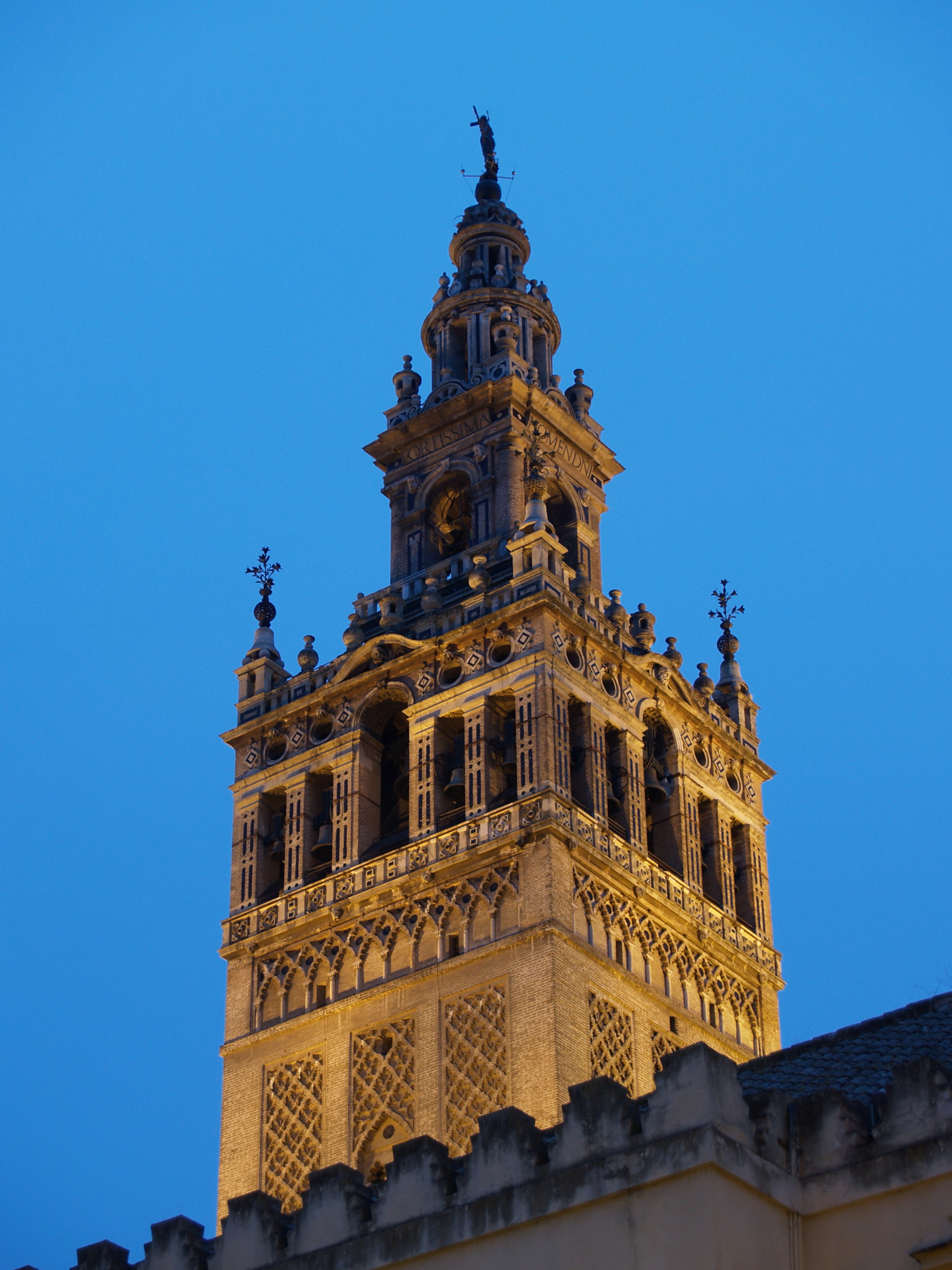 Giralda, Seville, Spain.